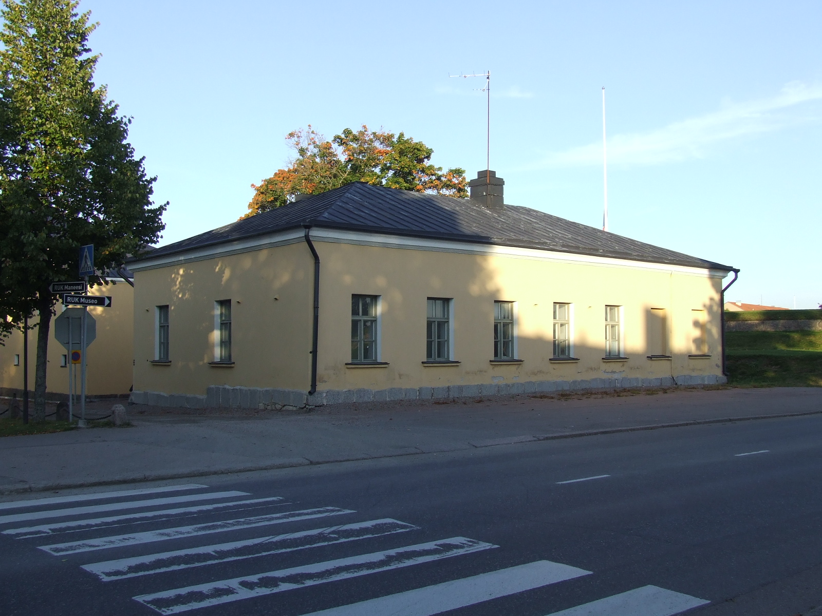 Guardhouse of the Vyborg gate in Hamina, Finland.